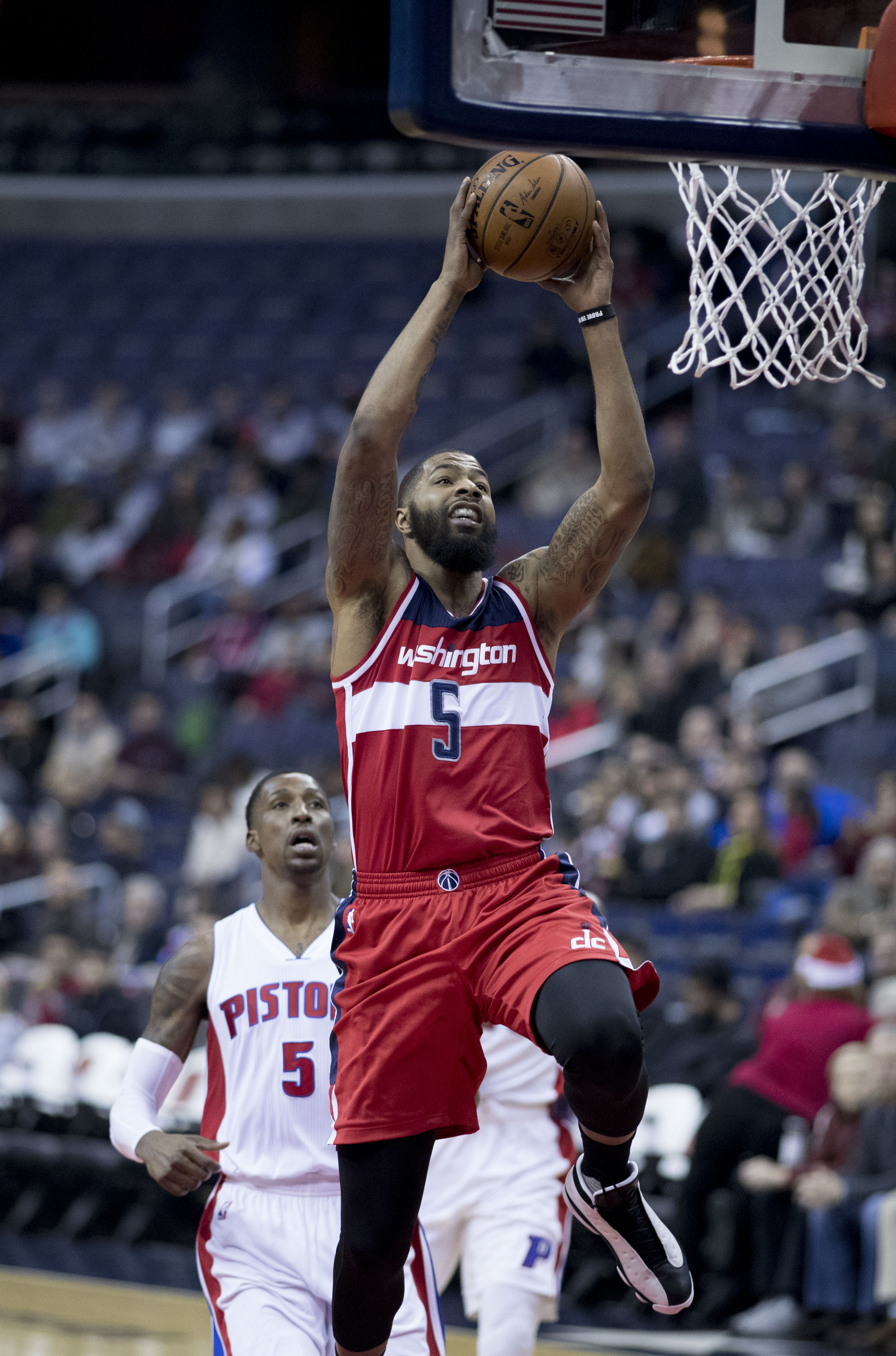 Pistons at Wizards 12/16/16